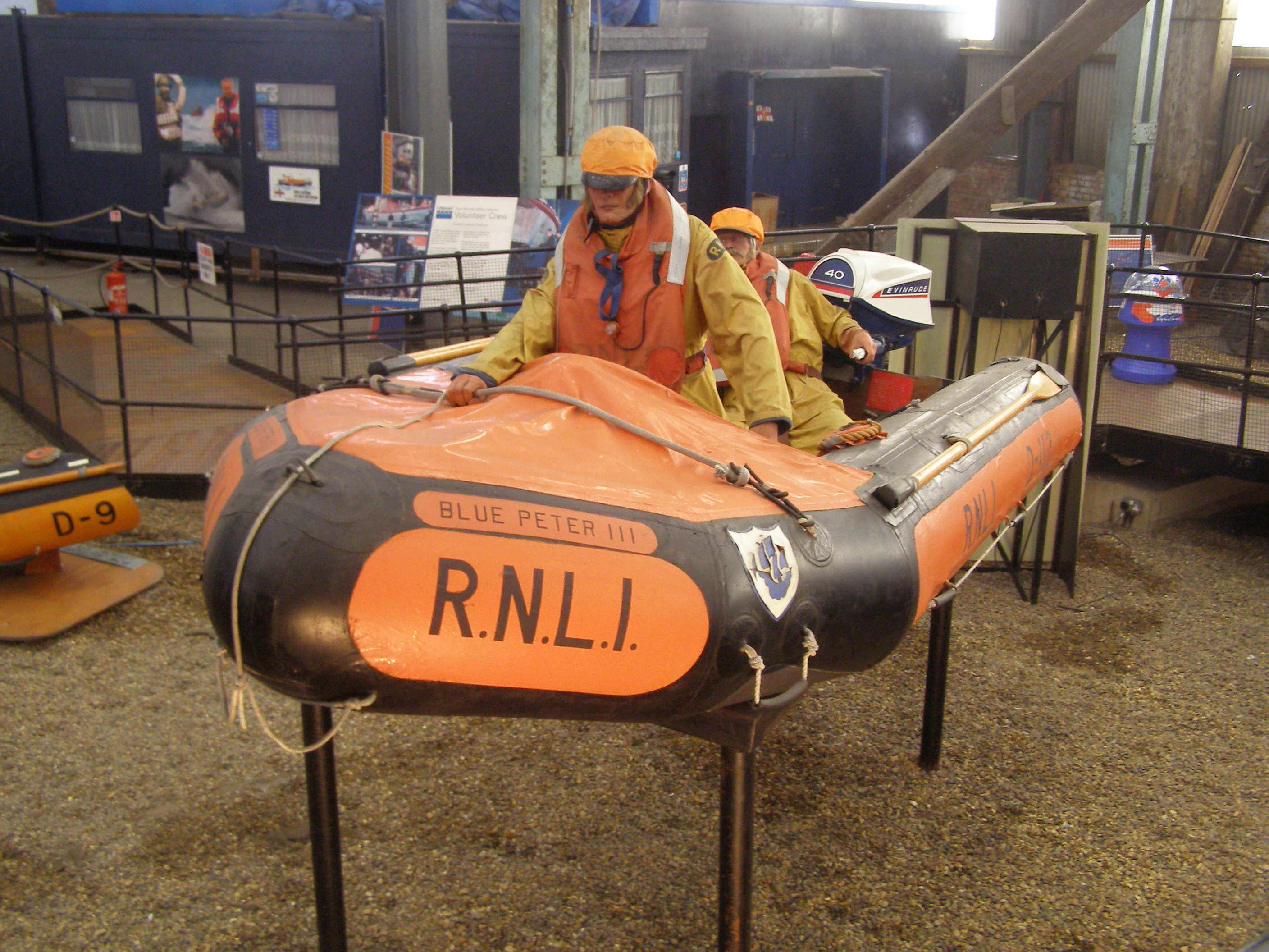 "Blue Peter III" a RNLI 'D class' inshore lifeboat of the Royal National Lifeboat Collection at the Historic Dockyard, Chatham, Kent, England